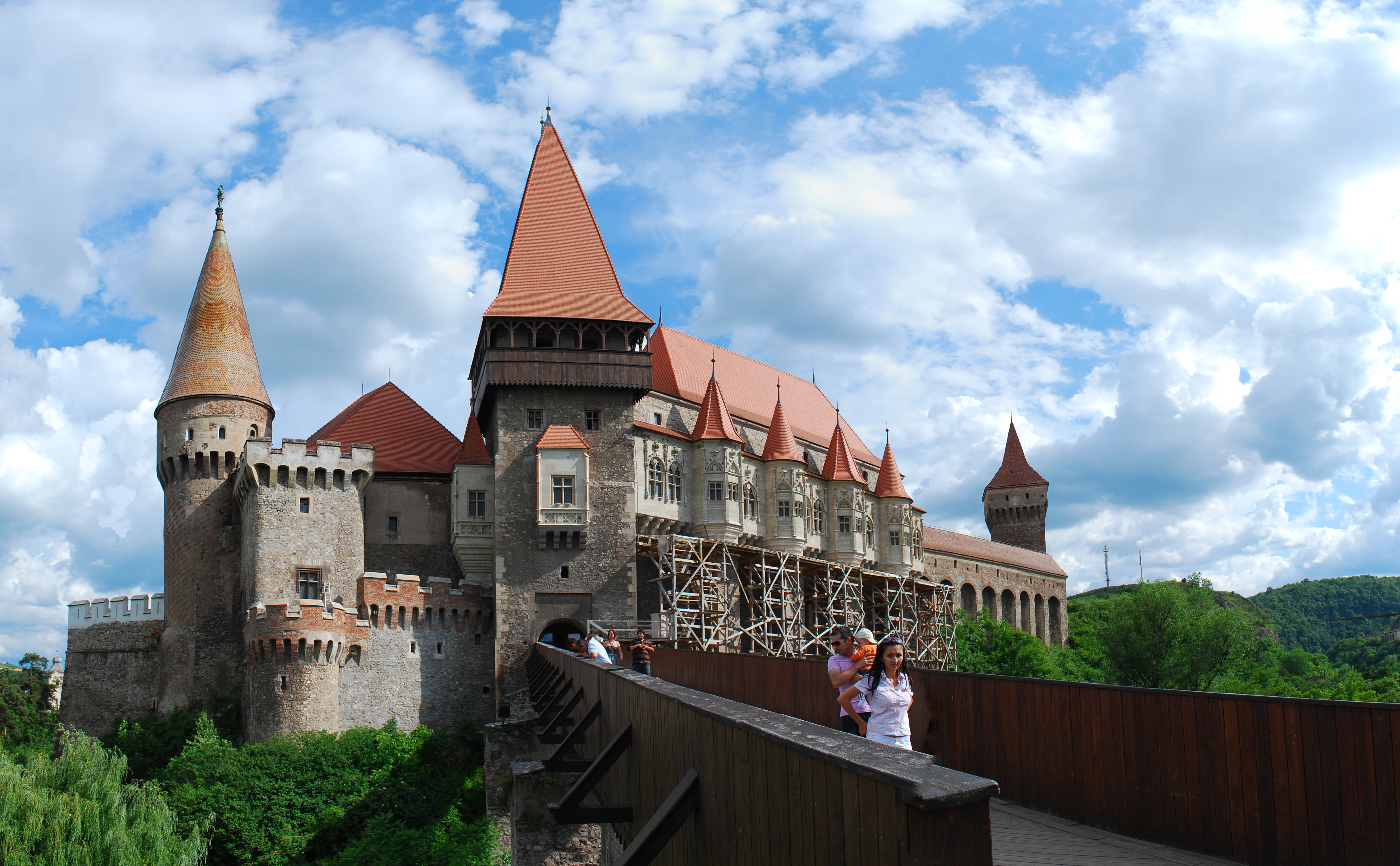 Stitched image of the Corvin castle in Hunedoara, RomaniaRomână: Castelul Corvinilor din Hunedoara, România